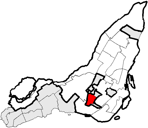 Location of Côte-Saint-Luc, Québec.